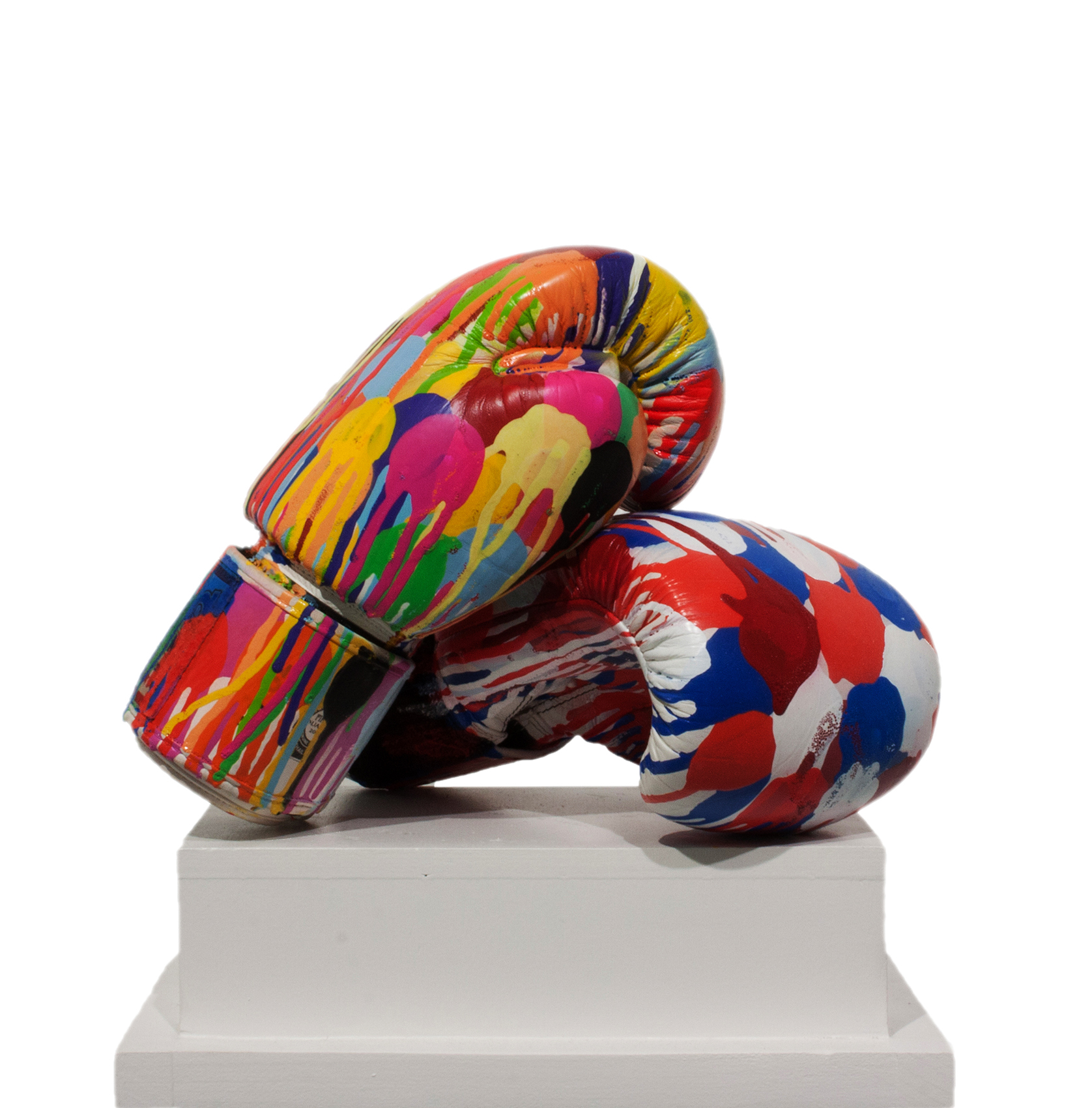 Omar Hassan Glove Save the Queen Mixed Media 25 x 17 cm